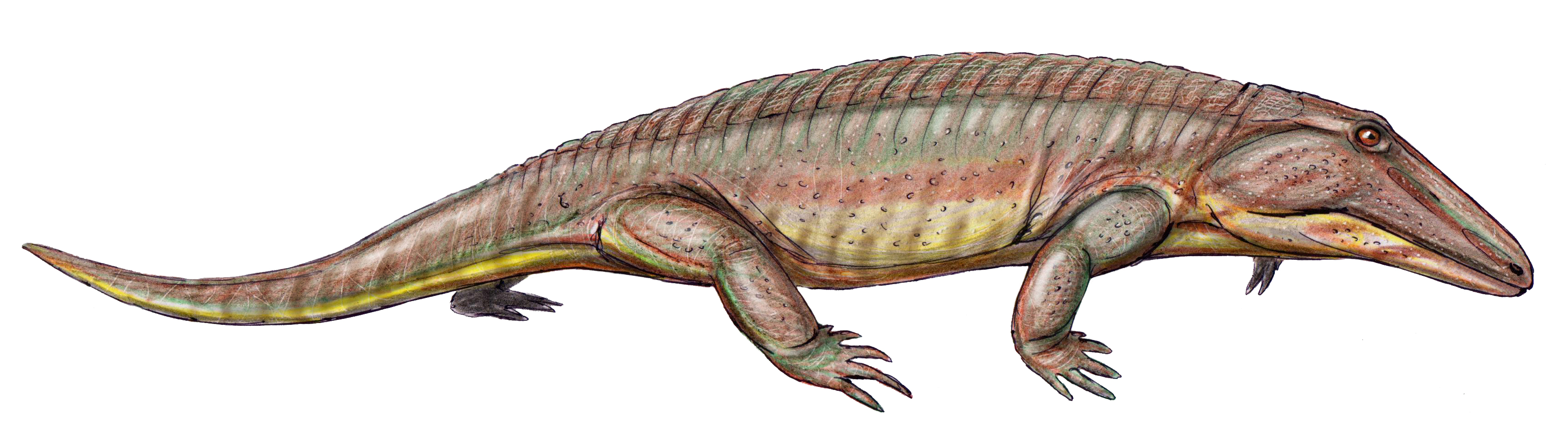 Chroniosuchus licharevi , chroniosuchid from Late Permian (upper Tatarian age) deposits of Arkhangelsk, Orenburg and Vologda Regions, Russia.